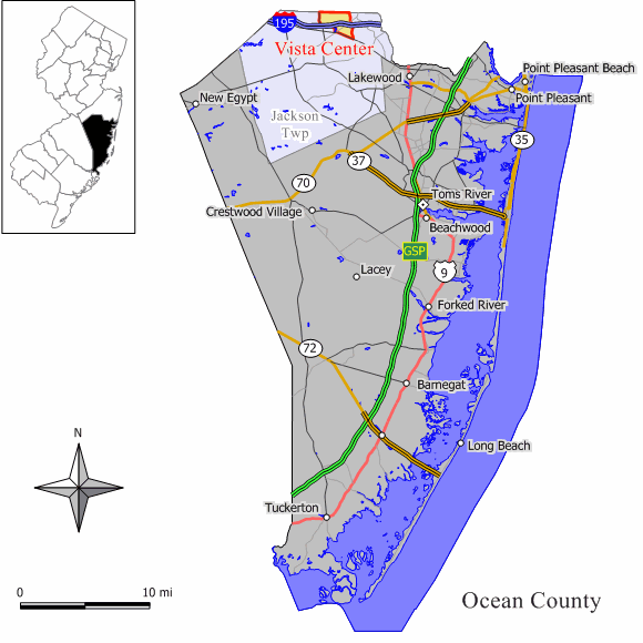 Source: Jim Irwin Original work by Jim Irwin, December 2005.